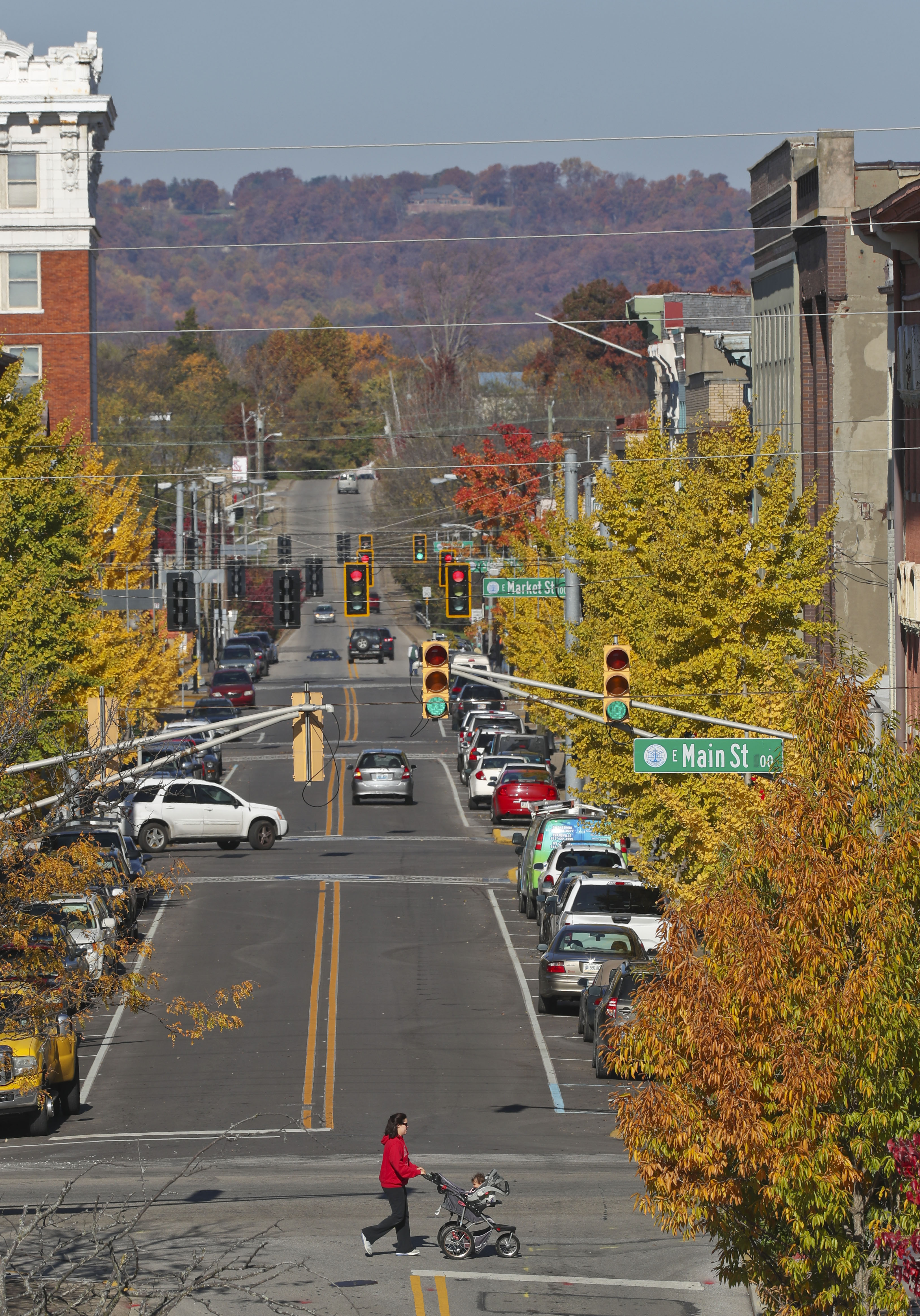 A view of Pearl Street in downtown New Albany, the county seat for Floyd County. The hills of Floyds Knobs can be seen in the distance due north.